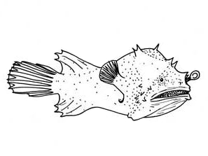 Drawing of the leftvent anglerfish, Photocorynus spiniceps